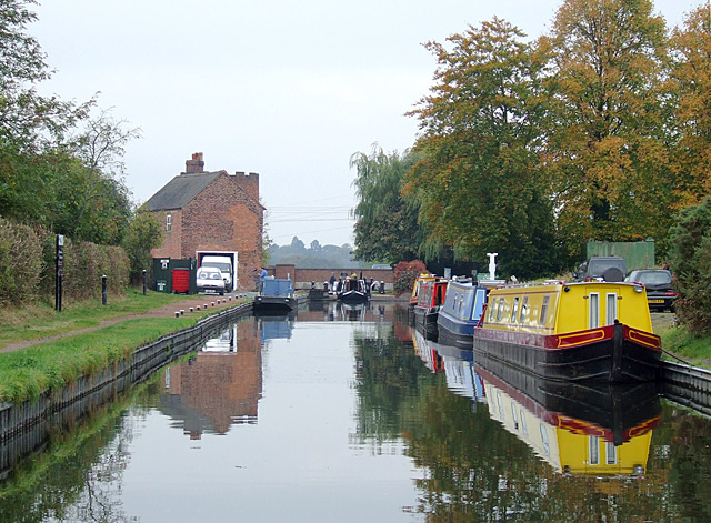 Approaching Gailey Wharf, Staffordshire On the Staffordshire and Worcestershire Canal (opened fully in 1772) there are forty-three locks (forty-five if you don't fancy the deep wide locks at Stourport) including one here at Gailey. The formerly busy A5 road crosses the bridge by the lock. A busy narrowboat hire company operates from here, and often moors many boats side by side, making the way very narrow if any other boats are moored on the towpath side. The yellow boat is one of theirs.